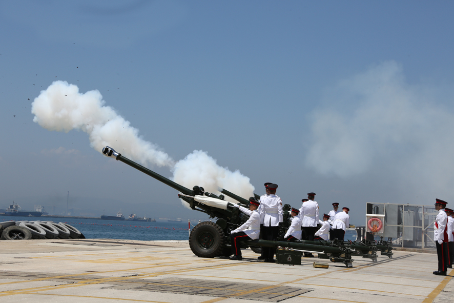 21-gun salute from the Dockyard Tower in Gibraltar Salvas celebrando nacimiento real 3